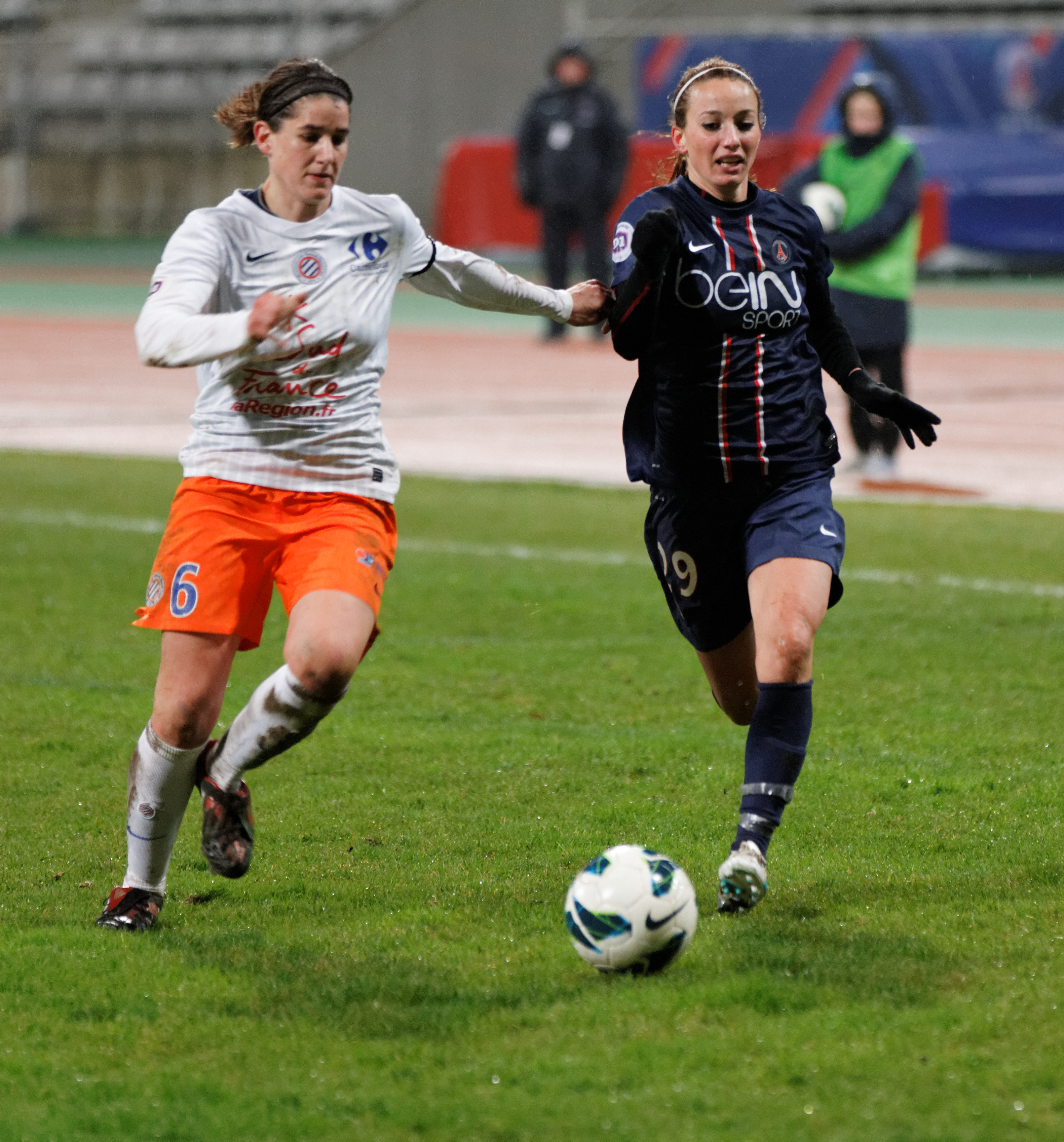 PSG-Montpellier, January 13th, 2013. Charlotte Bilbault (Montpellier) and Kosovare Asllani (PSG).